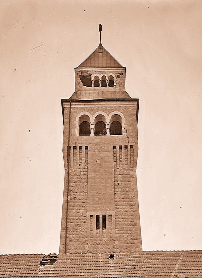 Image of earthquake damage to the Ascension Church Tower, after the 1927 earthquake in the British Mandate of Palestine. Augusta Victoria, Jerusalem.